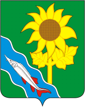 Yeysky District (Krasnodar krai), coat of arms